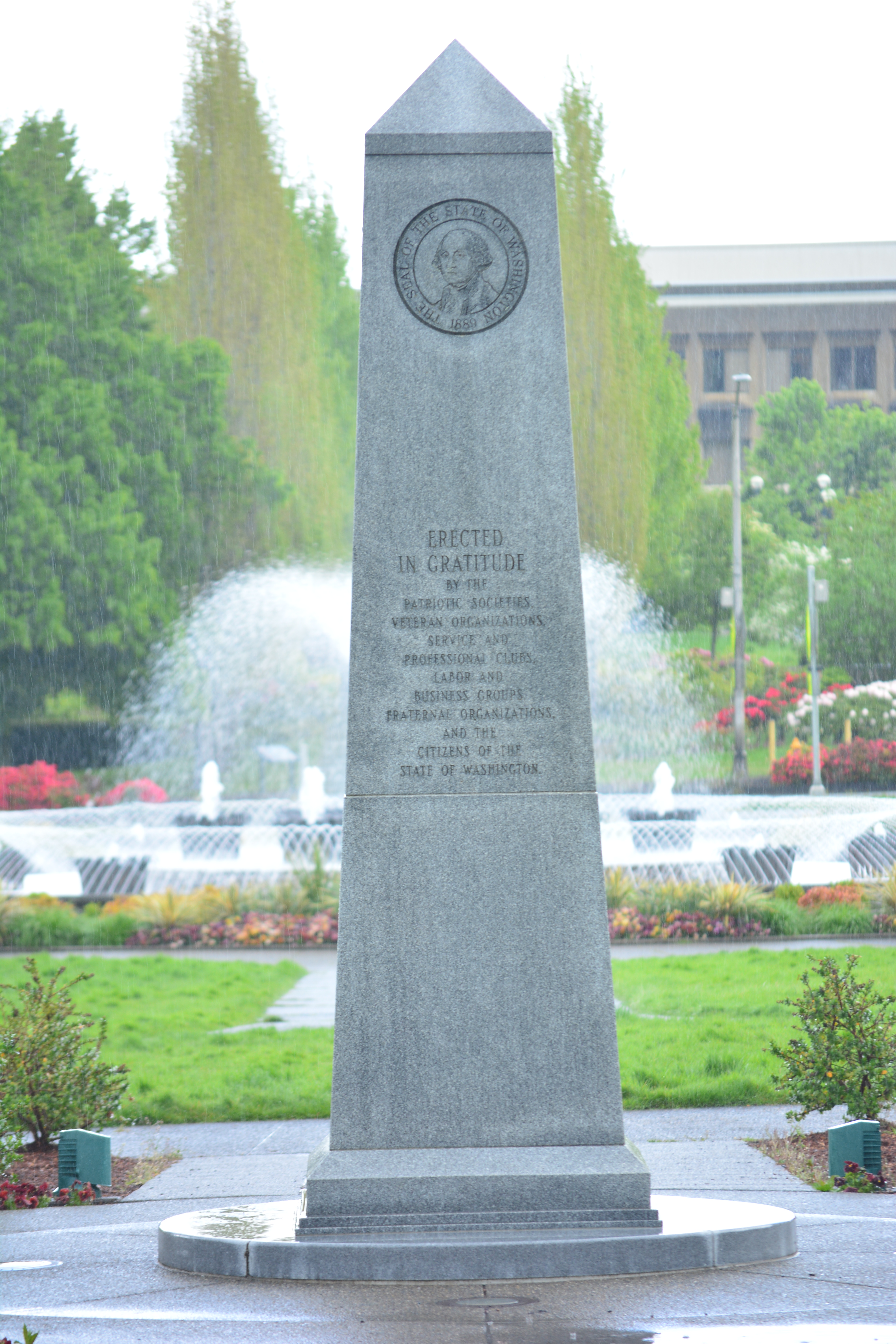 Rear (west) side of Medal of Honor obelisk, Washington State Capitol complex, Olympia, Washington.